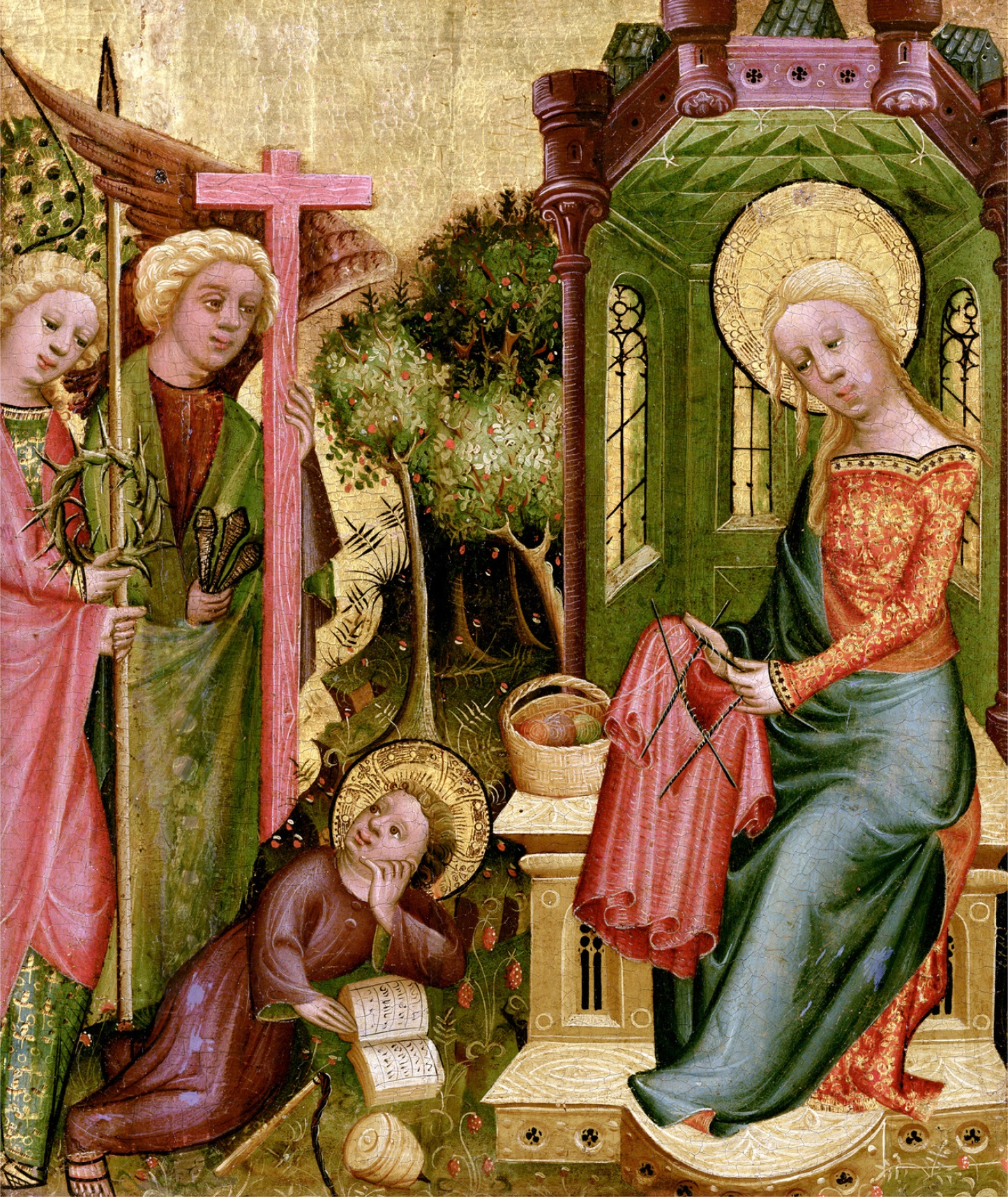 Visit of the Angel, from the right wing